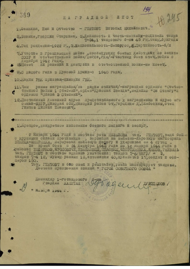 Vitold Gintovt award nomination, page #1.